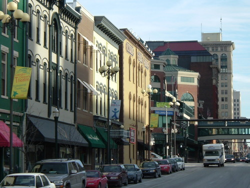 Victorian Square in LEXKY